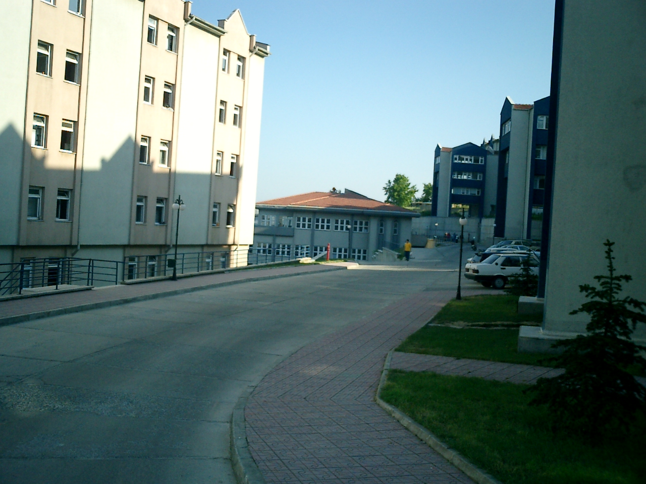 An image from the Turkish Wikipedia. The copyright holder of the original work released it into the public domain.